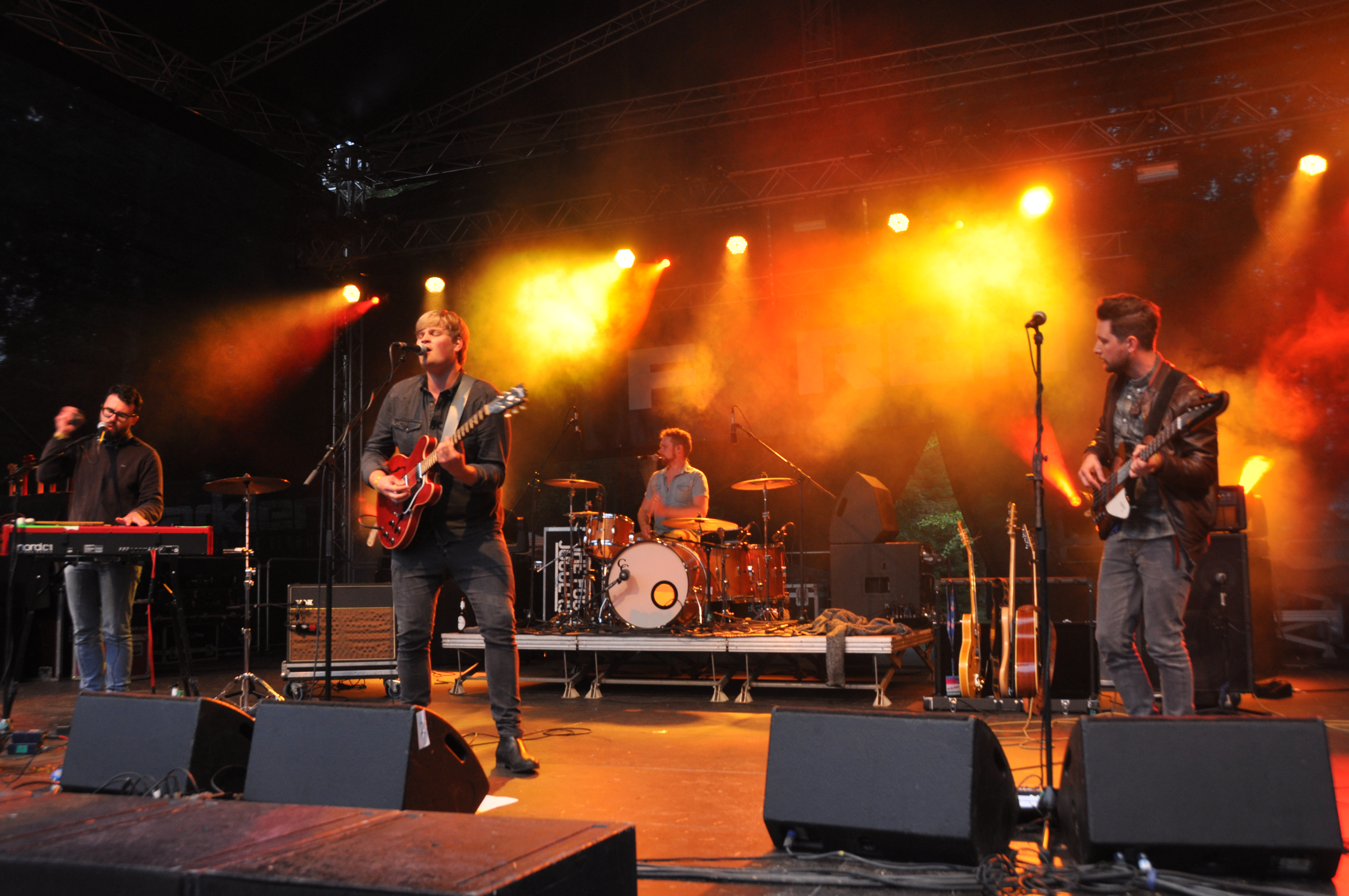 The Fog Joggers, appearence at the 1st blacksheep festival in the castle yard / castle park of Bad Rappenau - Bonfeld (Germany)